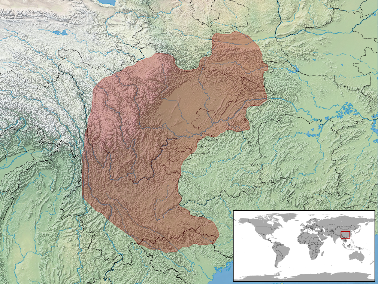 geographic distribution of Scincella monticola